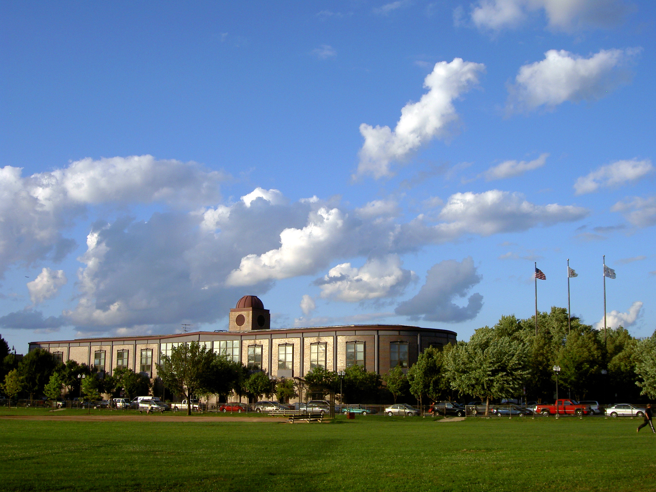 taken from Welles Park.